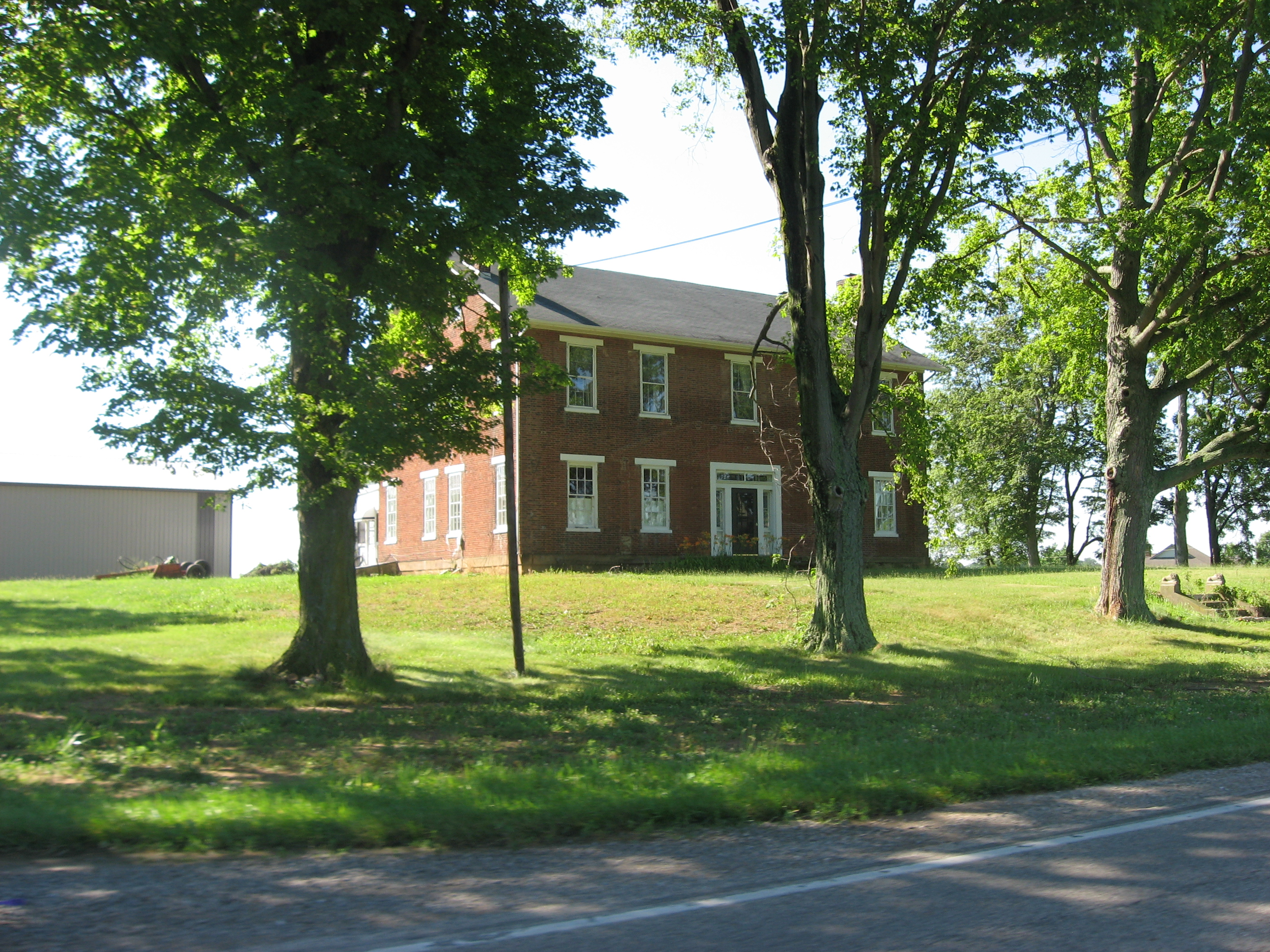 Front of Bellevue, located along the eastern side of State Route 159 north of Kingston in Pickaway Township, Pickaway County, Ohio, United States. Built in 1835, the farmhouse is listed on the National Register of Historic Places.